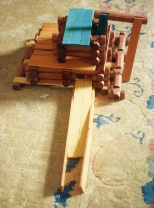 Sawmill made out of Lincoln Logs.